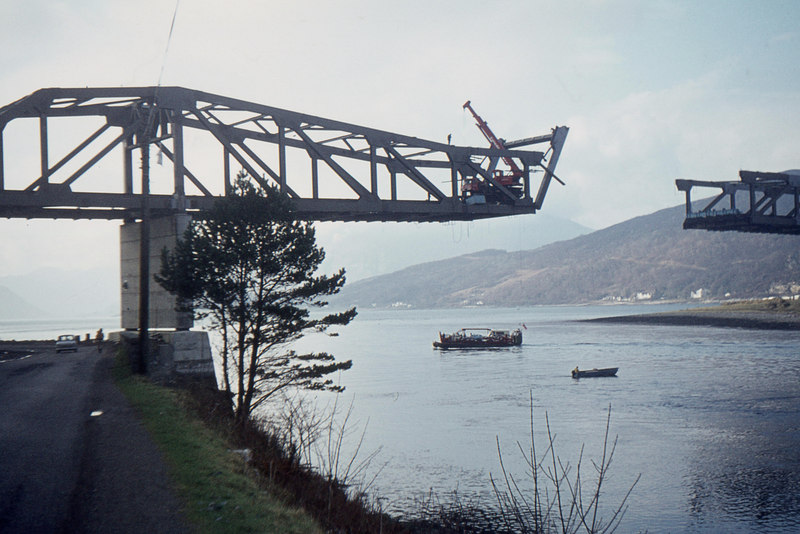 Ballachulish Bridge under construction (2)